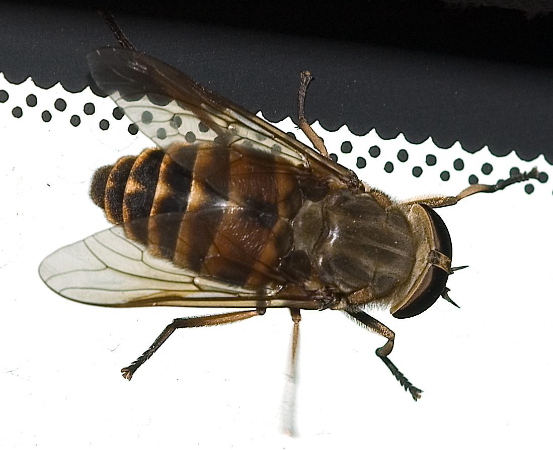 Please report references to kulacgmx.at.